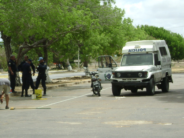 Judibana police.